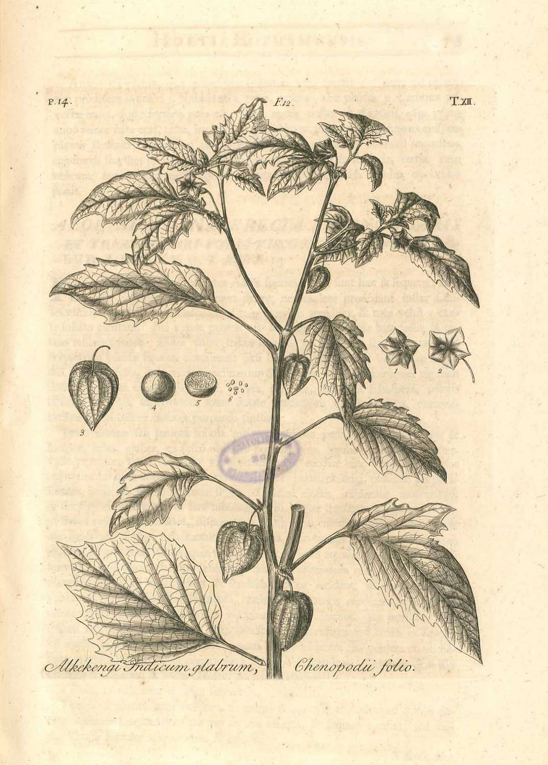 Dillenius, J.J. (1732), Hortus Elthamensis plate 12, depicting Alkekengi Indicum glabrum, Chenopodii folio, now know as Physalis angulata L.